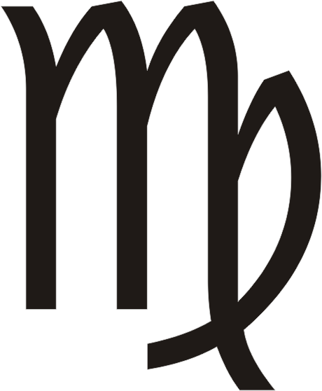 go zodiak sign